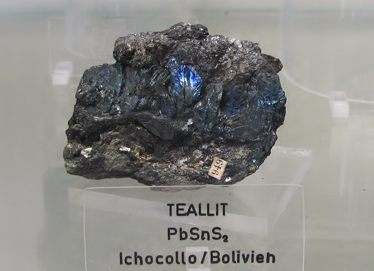 Teallite - Locality: Ichocollo, Bolivien - Exposed in the Mineralogical Museum, Bonn, Germany